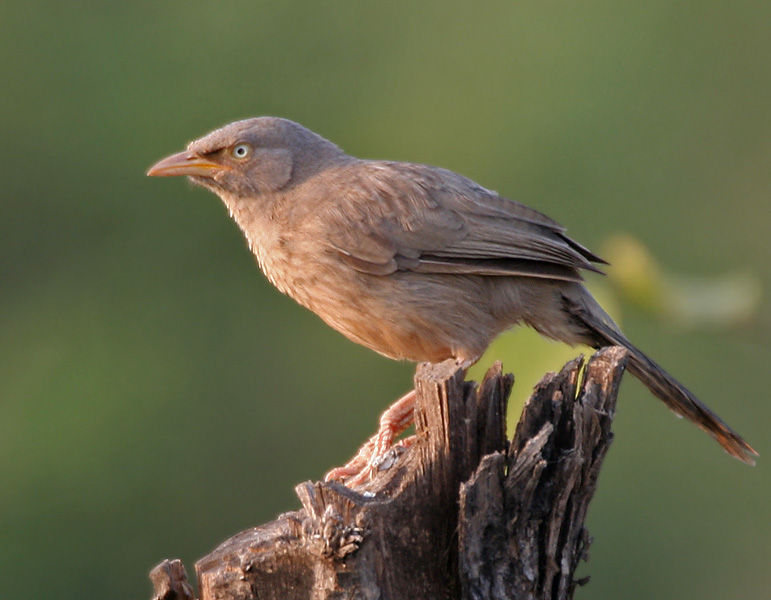 Jungle Babbler Turdoides striatus in Kawal Wildlife Sanctuary, Andhra Pradesh, India.